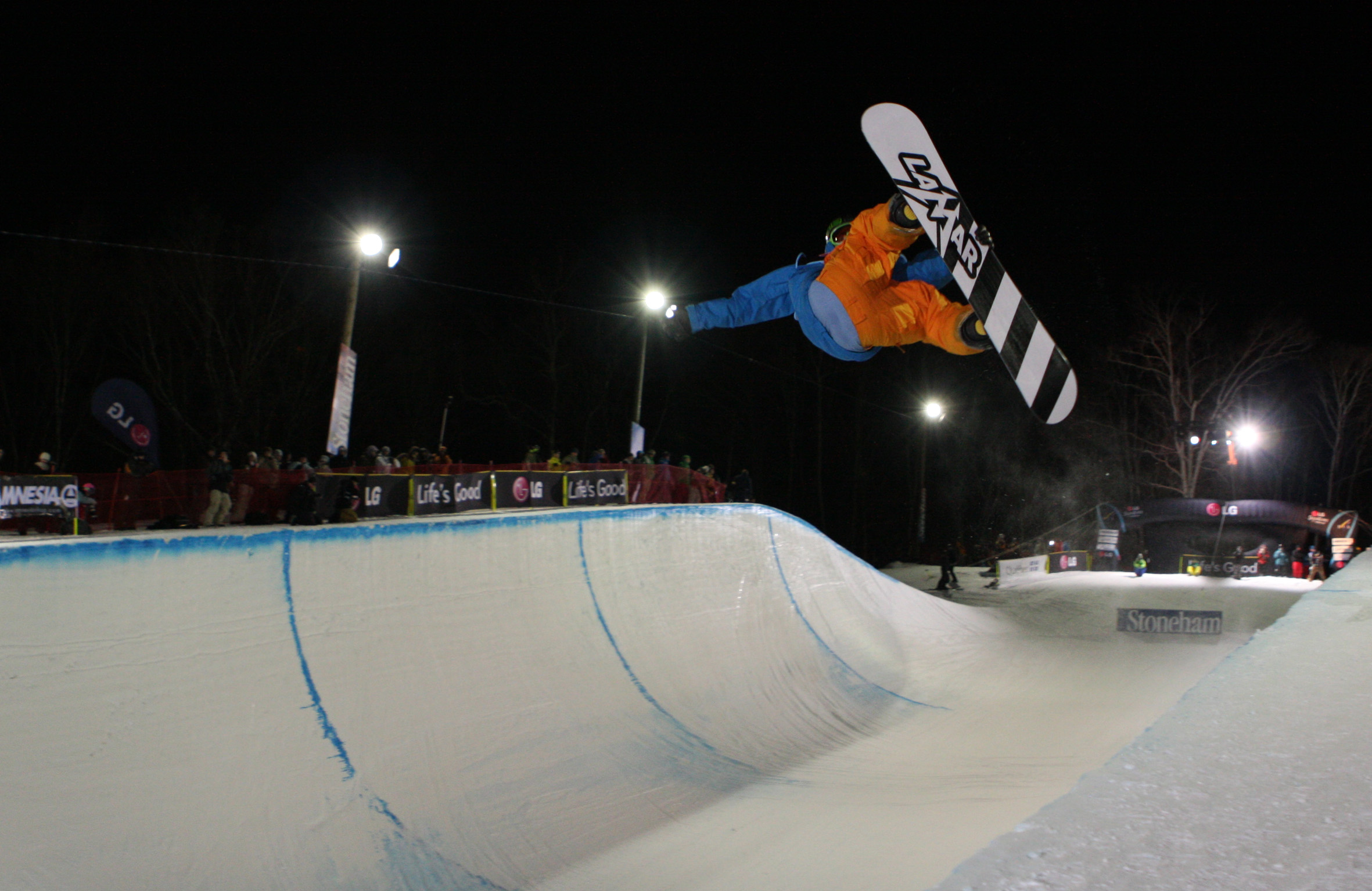 Stoneham_HP_Brad_Martin_CAN